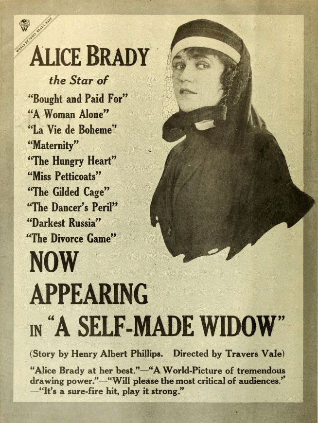 Advertisement in Moving Picture World, Aug 1917 for A Self-Made Widow (1917) with Alice Brady.